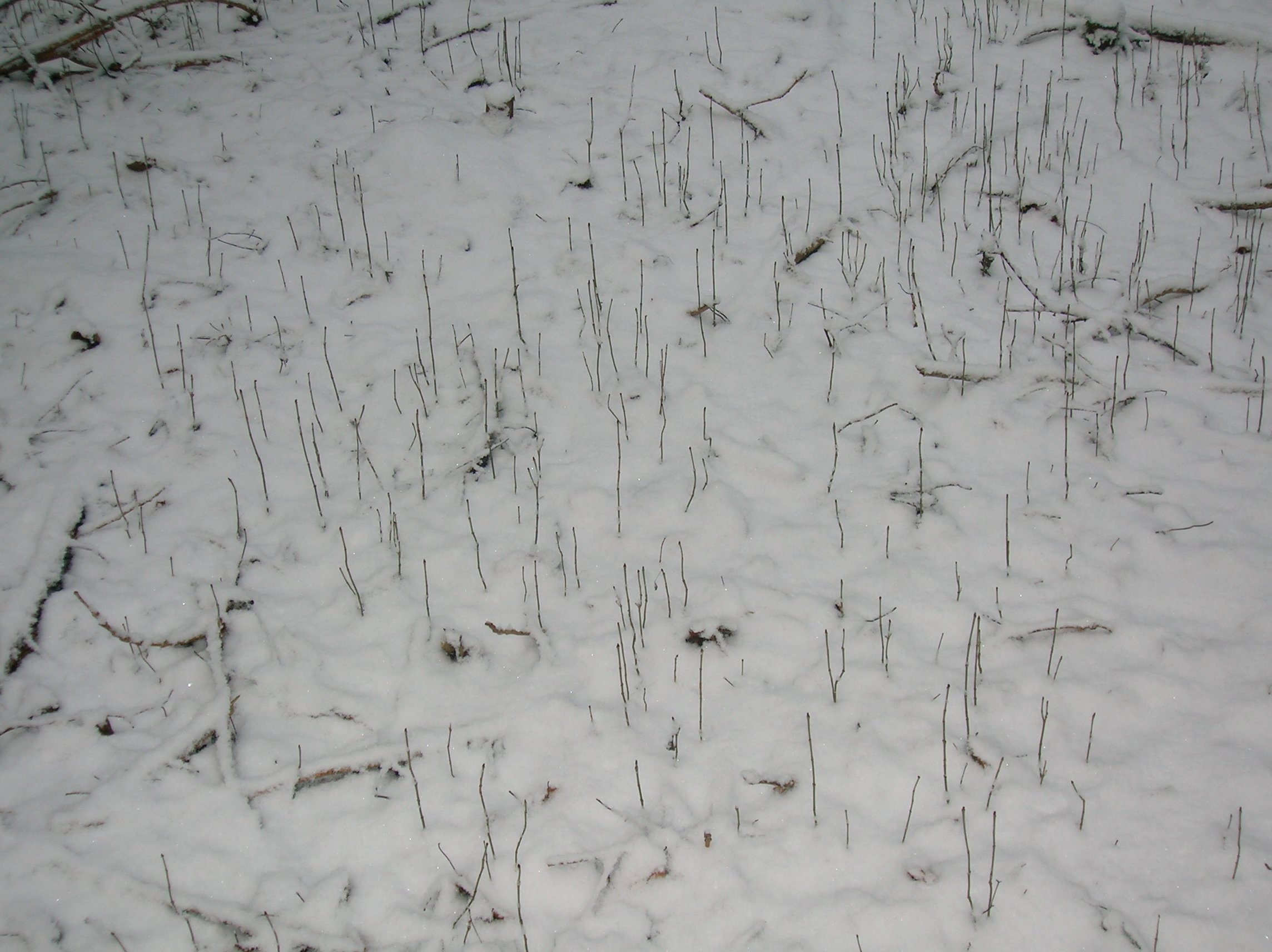 Ash mast in the snow at Eglinton Country Park. Irvine, North Ayrshire, Scotland